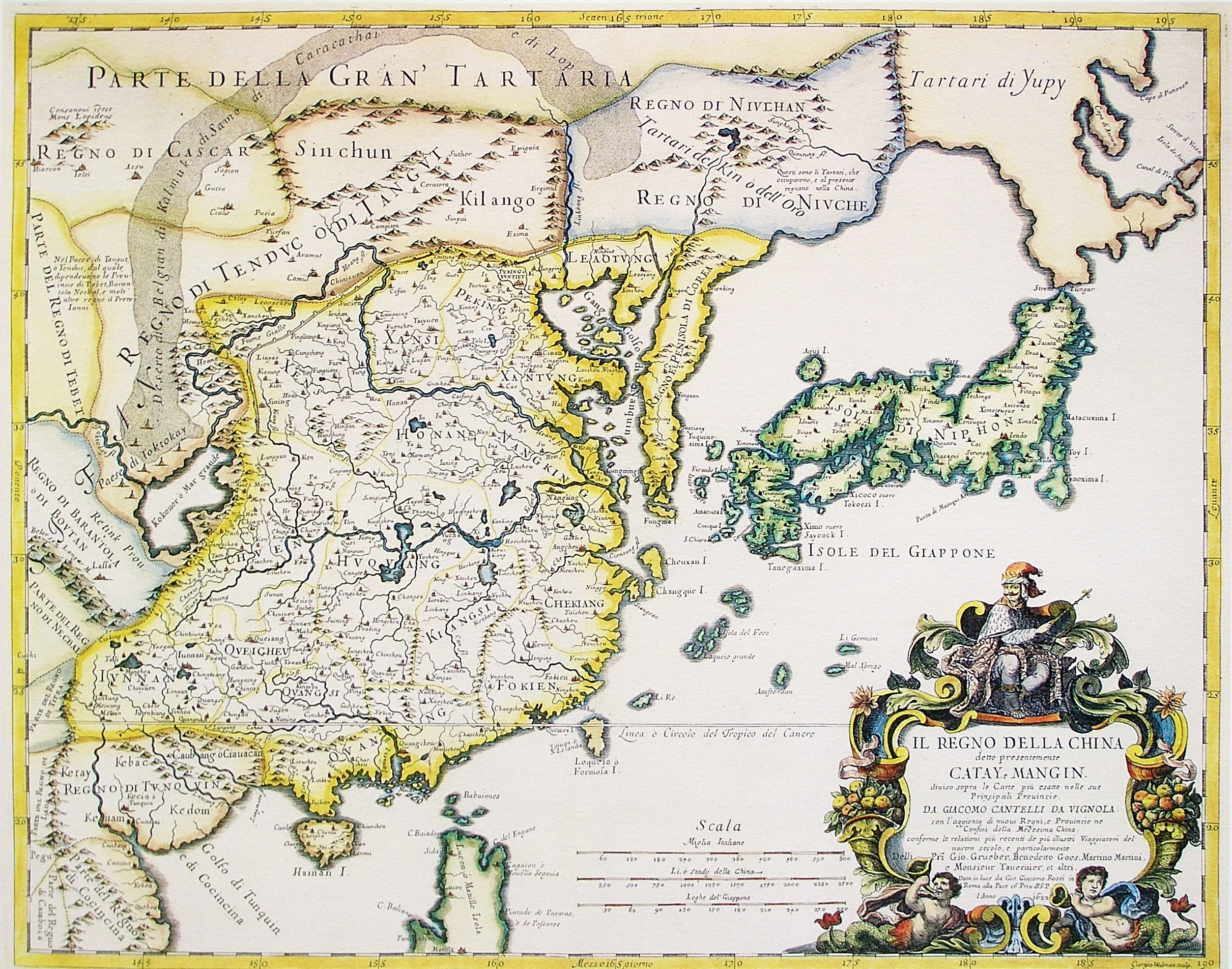 A map of China (in Italian): "The Kingdom of China, presently called Catay and Mangin, divided into its principal provinces on a most precise map"